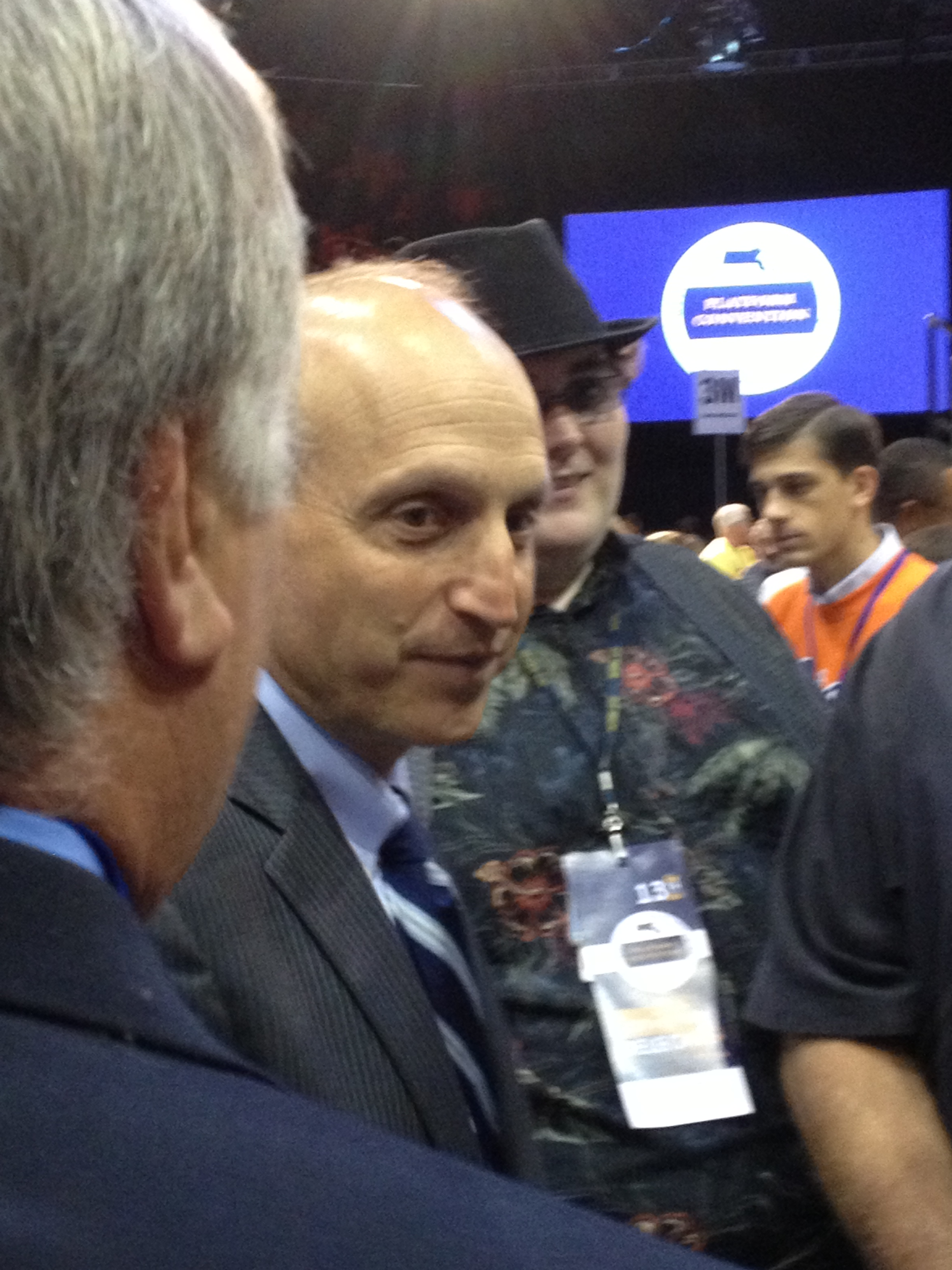 Daniel A. Wolf at the 2013 Massachusetts Democratic Convention